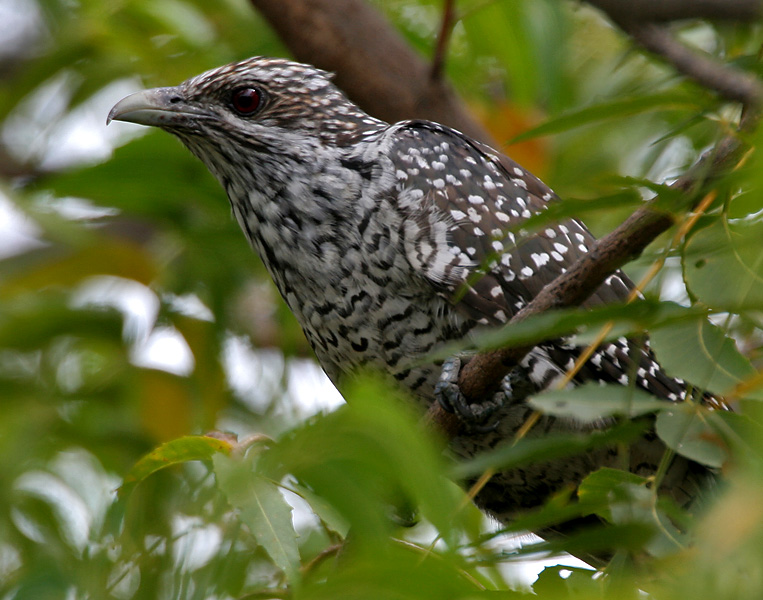 Asian Koel or Common Koel Eudynamys scolopacea in Hyderabad, India.